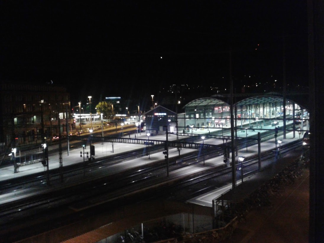 Railroad station of Olten (Switzerland)